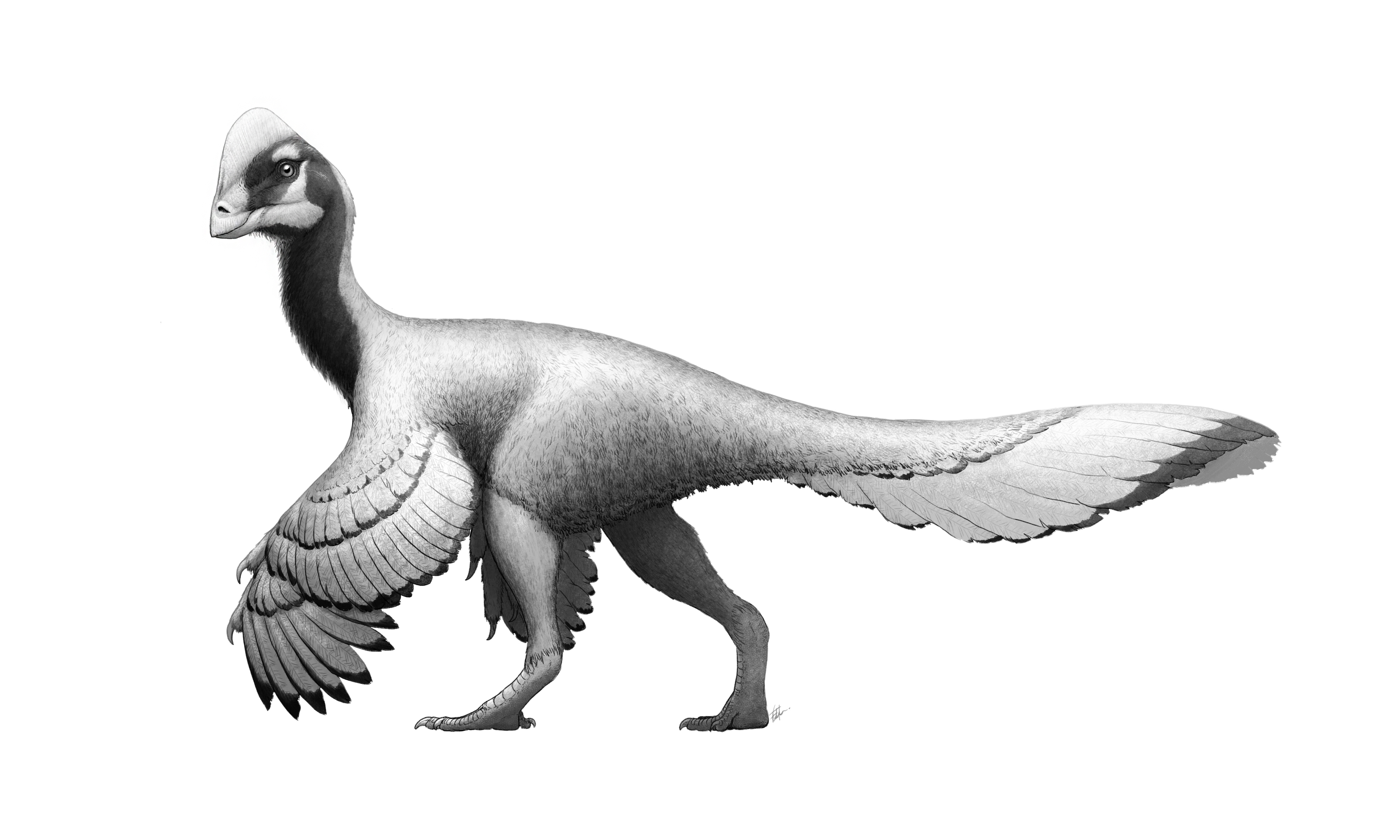 Scientific Reconstruction of Anzu wyliei